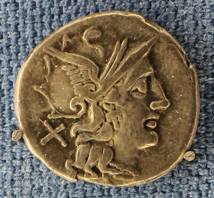 Ancient Roman coins in Palazzo Blu (Pisa)